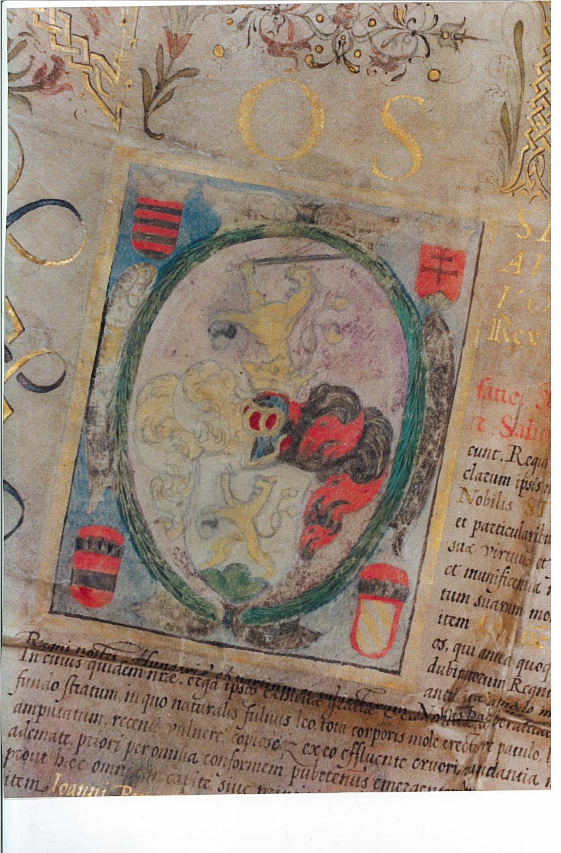 A detail of the letter of 1626 by King Ferdinand II of Hungary confirming the nobility of István (Latin: Stephanus) Kenessey (Latin: de Kenese/ de Kenesse) and five family members, depicting the granted family coat of arms.